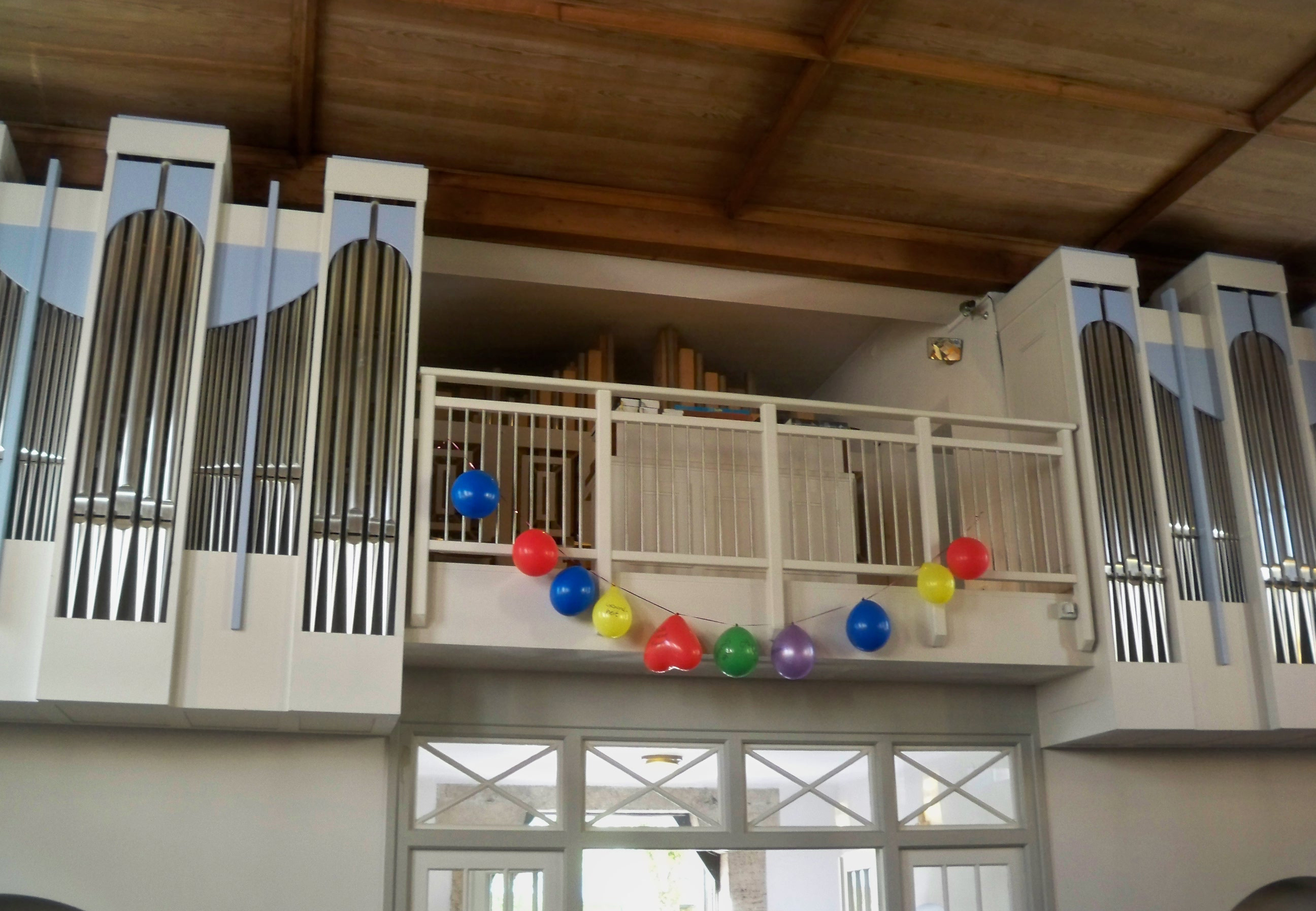 Gauting, Bavaria, Christuskirche, organ